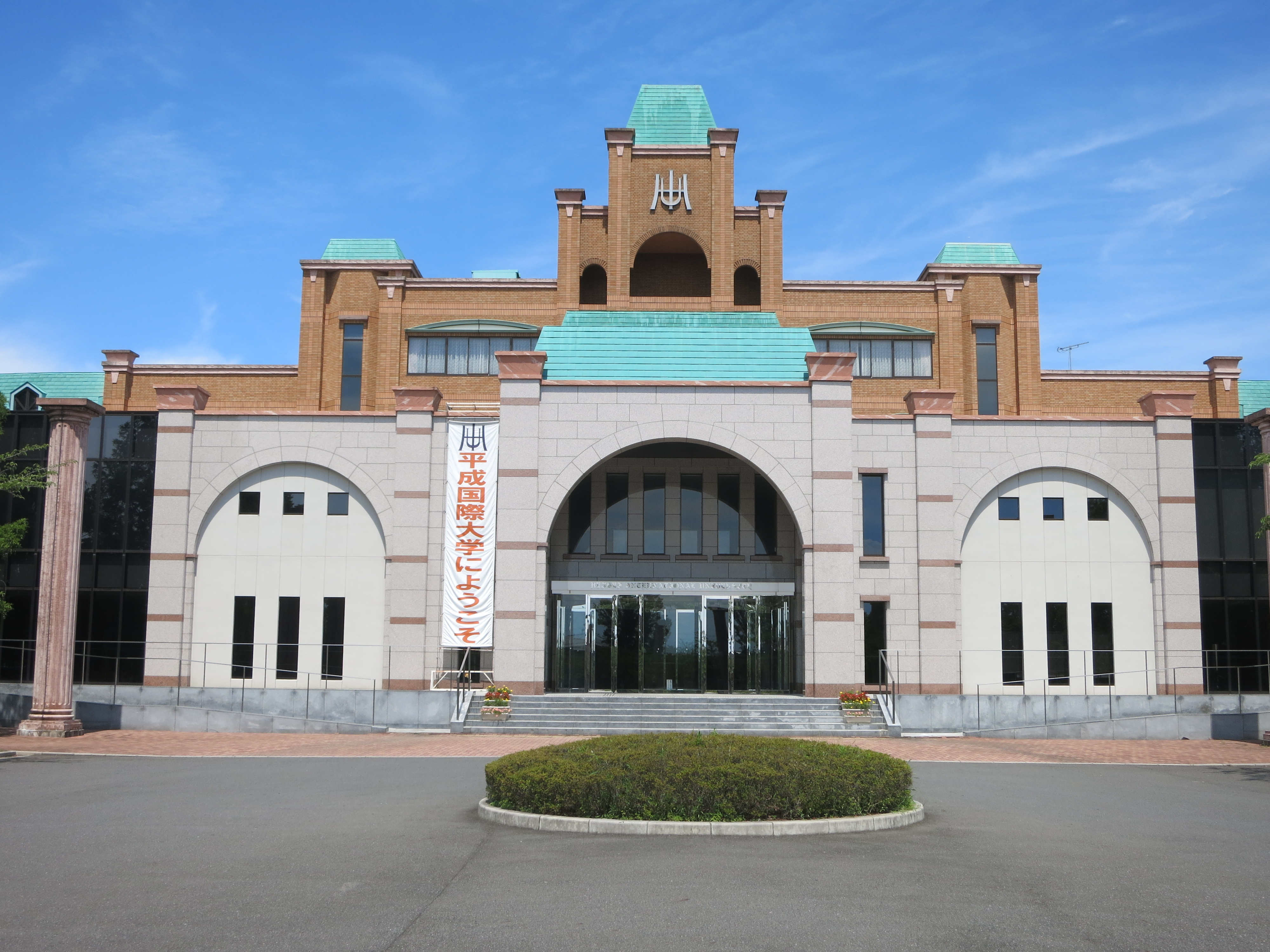 Heiseikokusaiunivercity